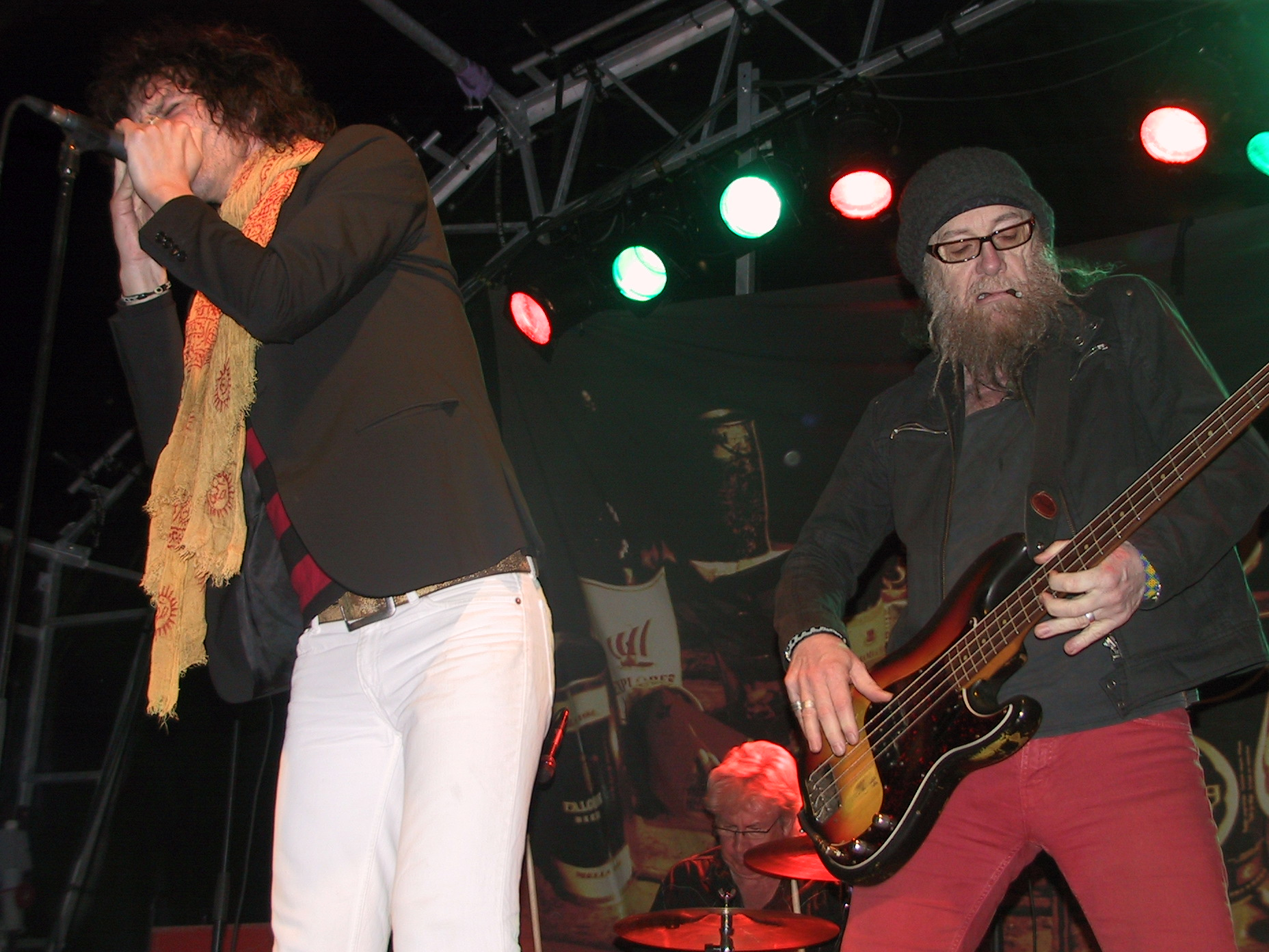 Nationalteatern Soundcheck